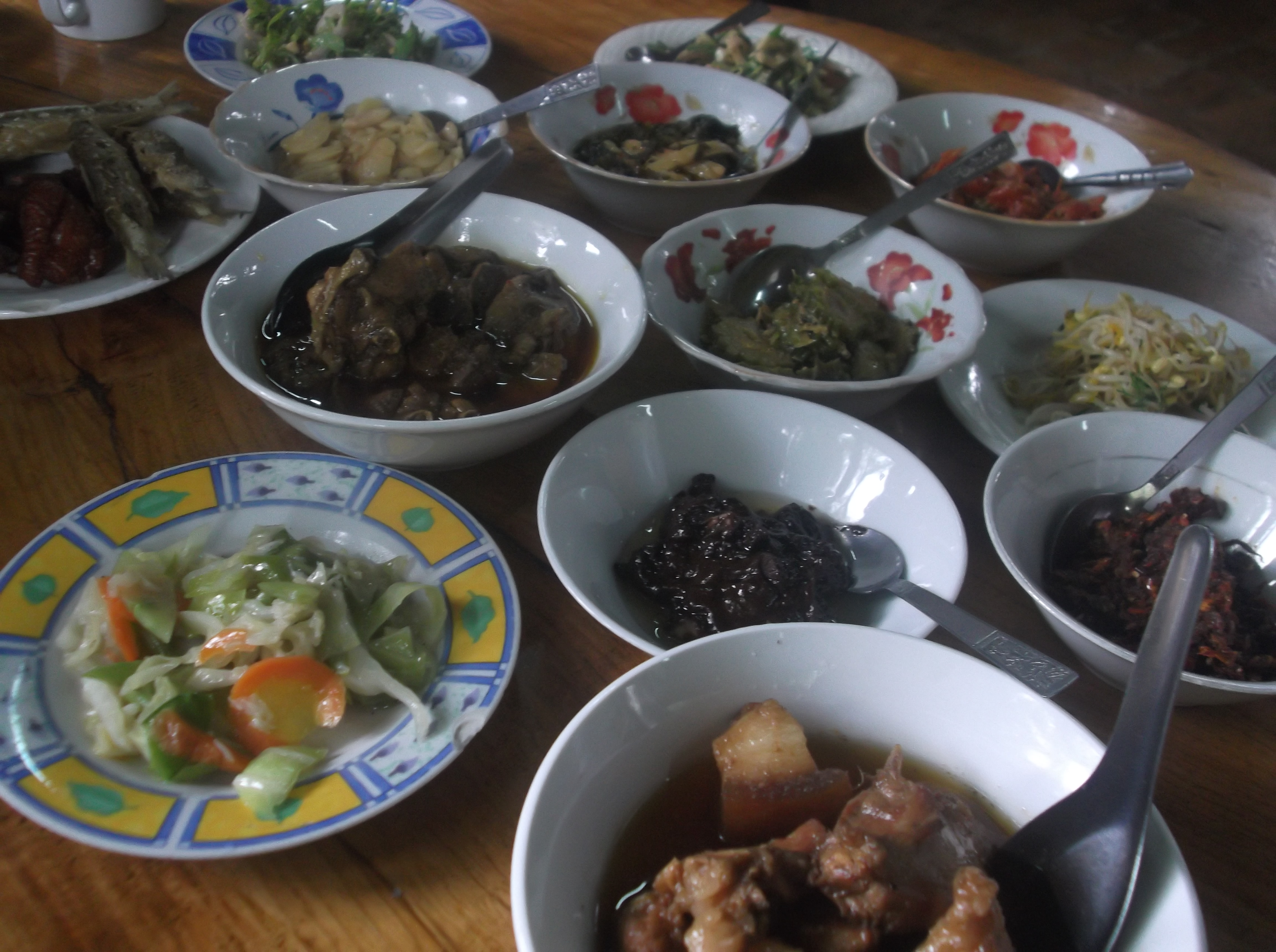 Myanmar traditional lunch with a variety of main dish & side dishes.မြန်မာဘာသာ: မြန်မာ့ရိုးရာ ထမင်း​ဝိုင်း